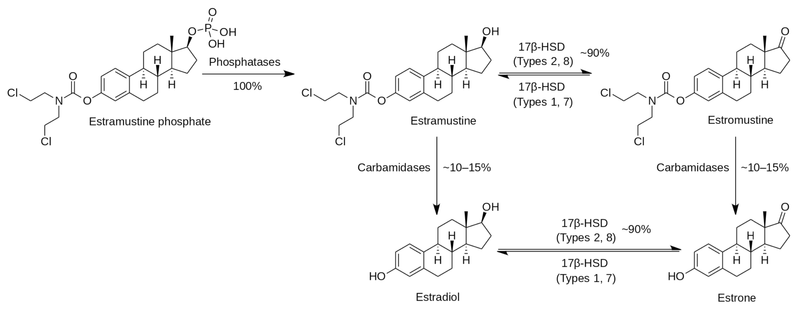 Metabolism of estramustine phosphate in humans. Sources of the information: (July 1995). "Estramustine phosphate sodium. A review of its pharmacodynamic and pharmacokinetic properties, and therapeutic efficacy in prostate cancer". Drugs Aging 7 (1): 49–74. PMID 7579781. (February 1998). "Pharmacokinetics and pharmacodynamics of estramustine phosphate". Clin Pharmacokinet 34 (2): 163–72. PMID 9515186. (June 1984). "Clinical pharmacokinetics of estramustine phosphate". Urology 23 (6 Suppl): 22–7. PMID 6375076. (October 2009). "Single nucleotide polymorphisms of 17beta-hydroxysteroid dehydrogenase type 7 gene: mechanism of estramustine-related adverse reactions?". Int. J. Urol. 16 (10): 836–41. PMID 19735314. (February 2005). "Single-nucleotide polymorphisms in the 17beta-hydroxysteroid dehydrogenase genes might predict the risk of side-effects of estramustine phosphate sodium in prostate cancer patients". Int. J. Urol. 12 (2): 166–72. PMID 15733111.